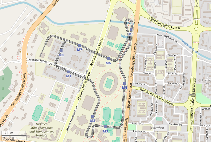 OpenStreetMap of Ashgabat Monorail in Turkmenistan